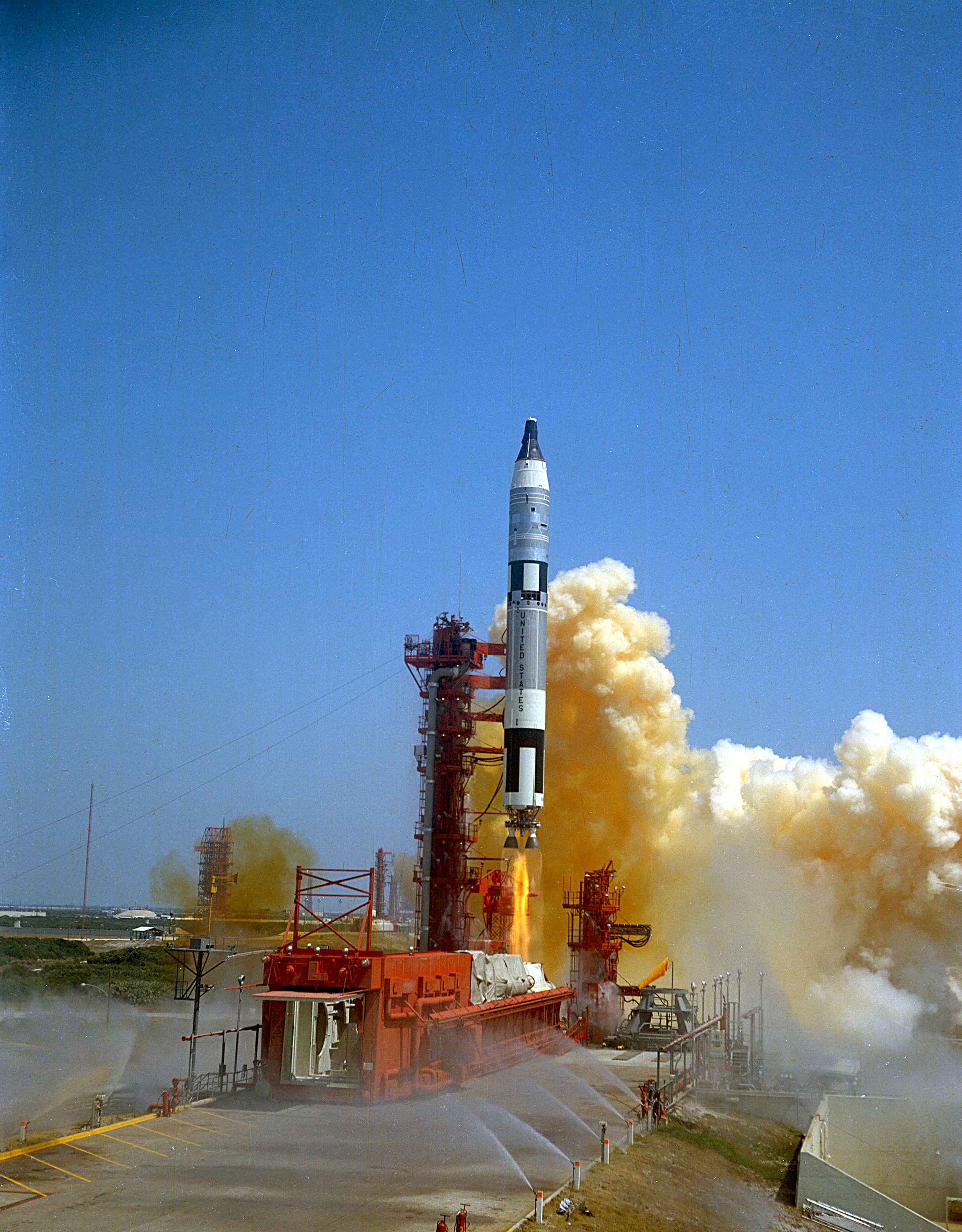 Gemini-Titan 4 (GT-4) lift-off carrying James McDivitt and Ed White for a four-day mission. This flight included the first spacewalk by an American astronaut, performed by Ed White.